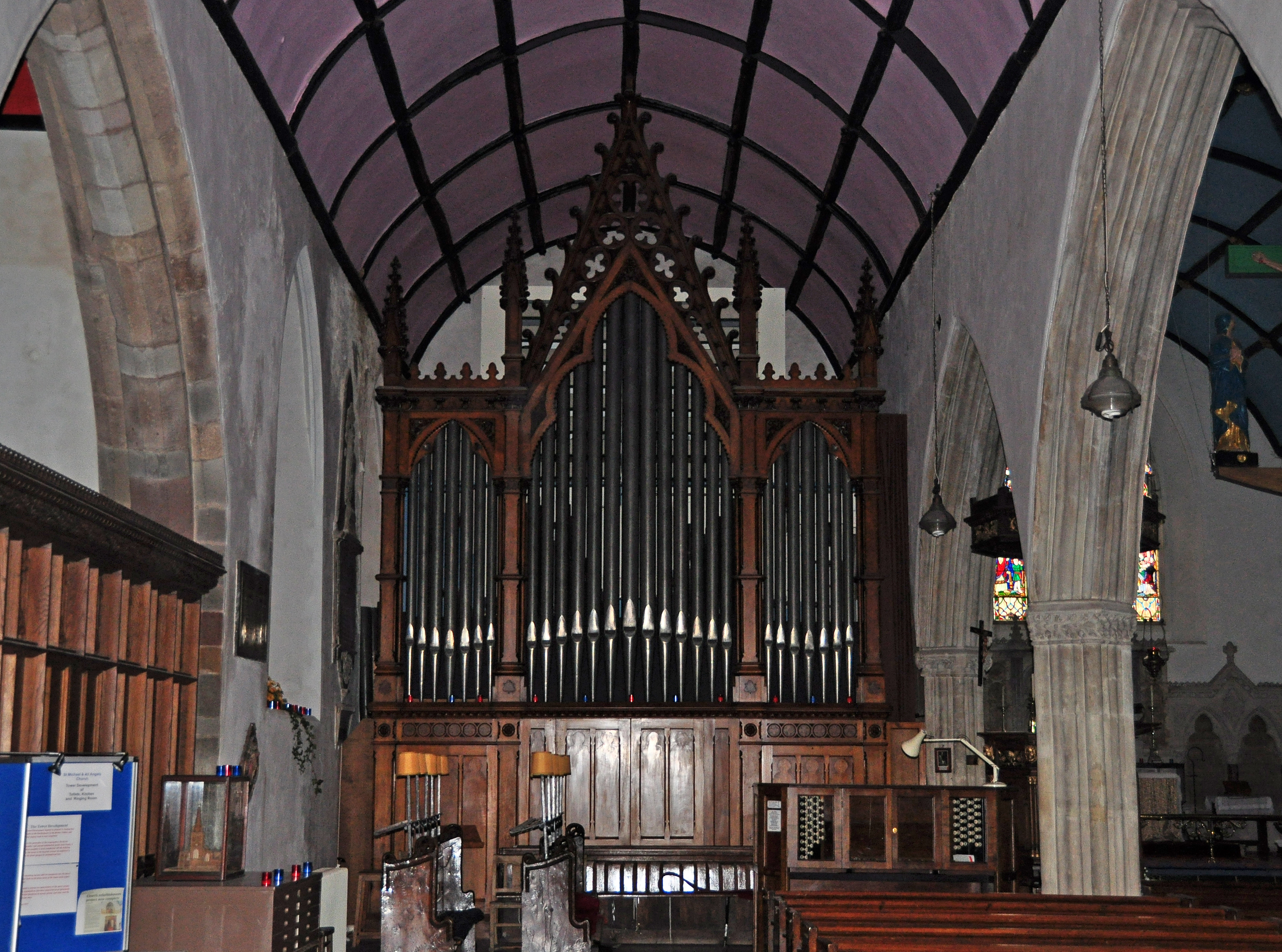 The church organ in St Michael's Church, in Great Torrington, Devon.